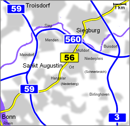 Map of the German town Sankt Augustin